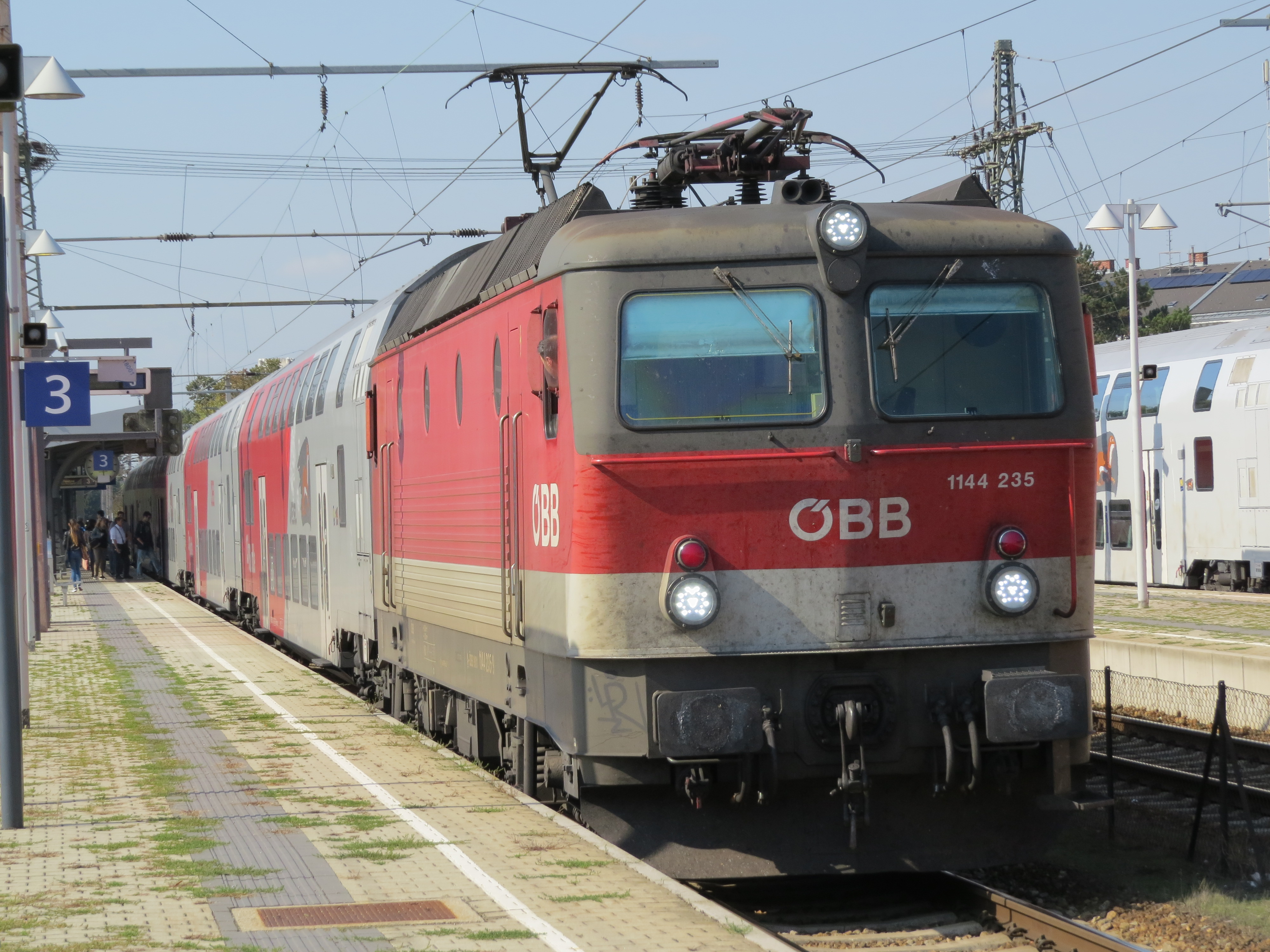 ÖBB 1144 235 at Bahnhof Stockerau